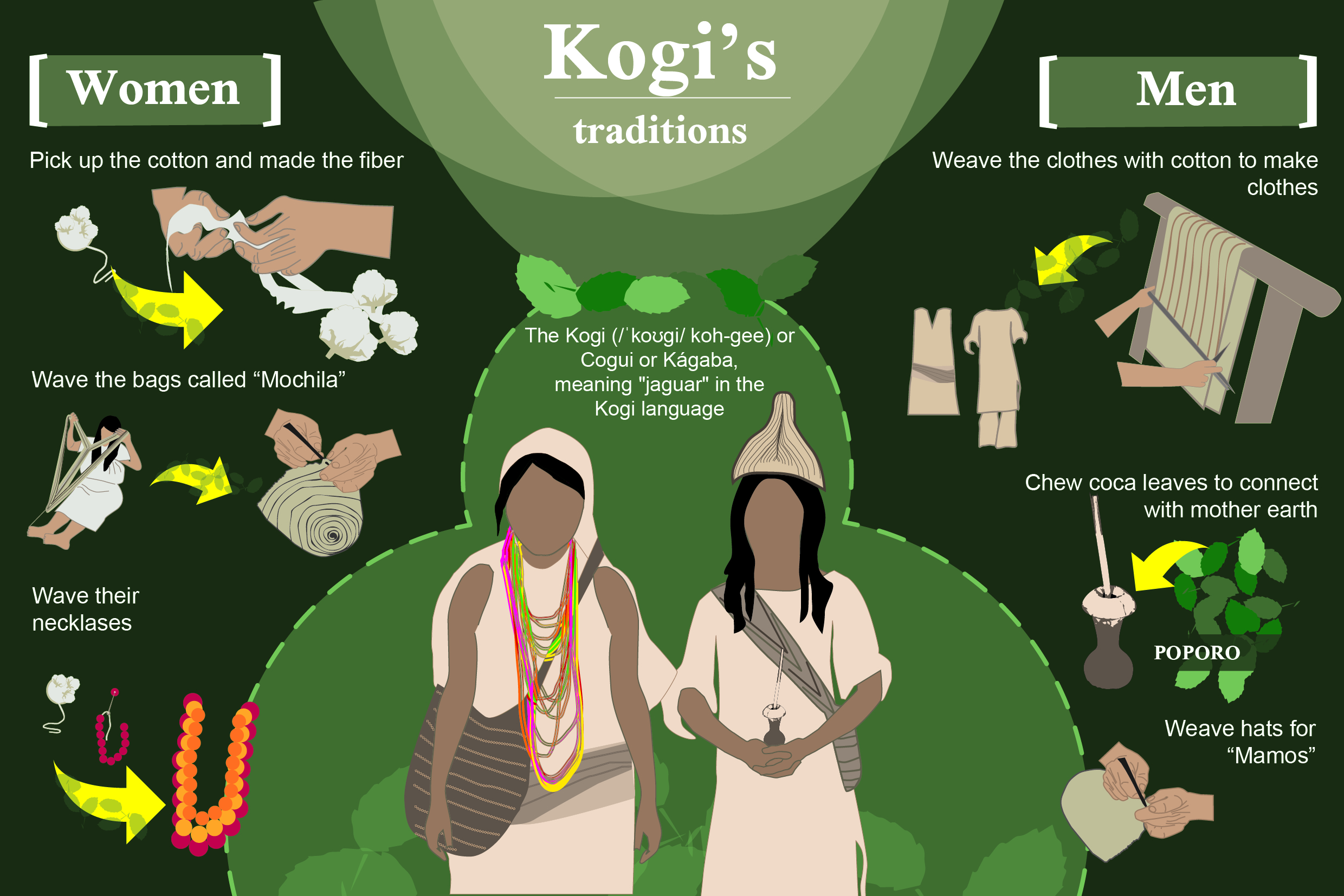 Kogi's traditions are somehow very simple, this image shows some of them related to their clothes and rolls on their community.